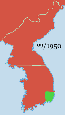 Map of Korean war in September 1950 showing: North Korean, Chinese and communist forces (red) South Korean, US and United Nations forces (green).